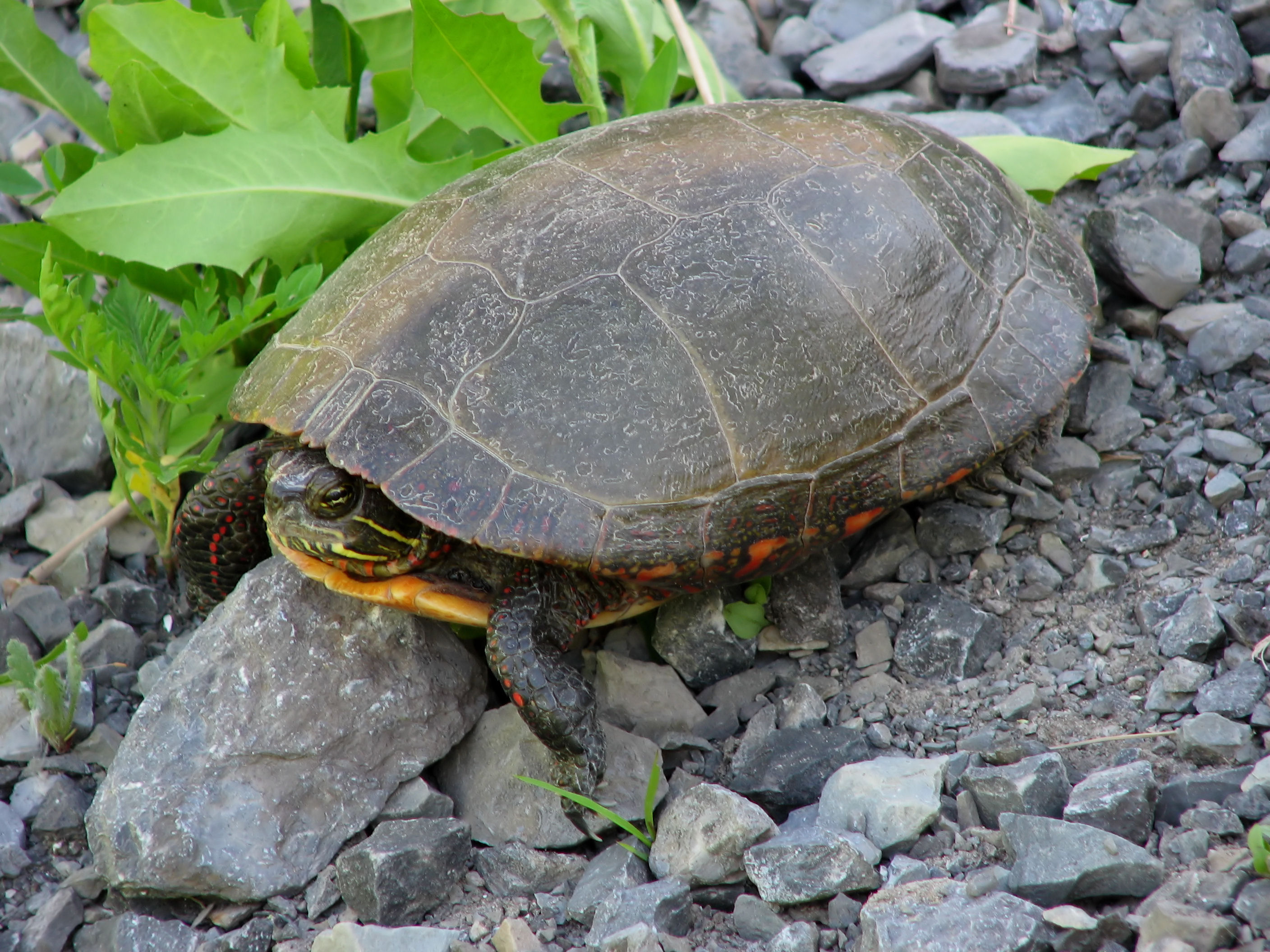 Midland painted turtle (Chrysemys picta marginata) taken near Rideau River, Ottawa, Ontario